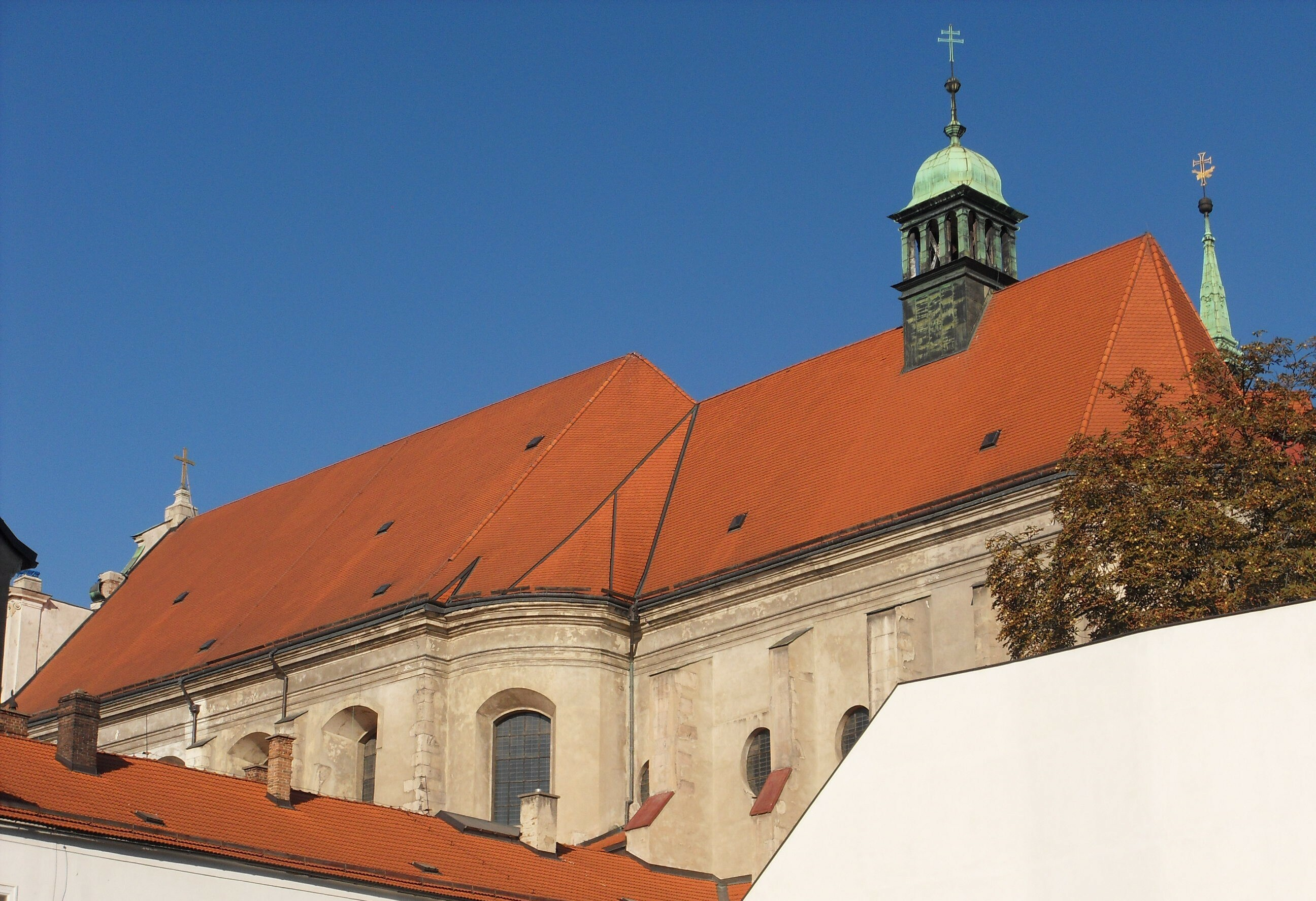 Saints John church, Brno, Czech Republic